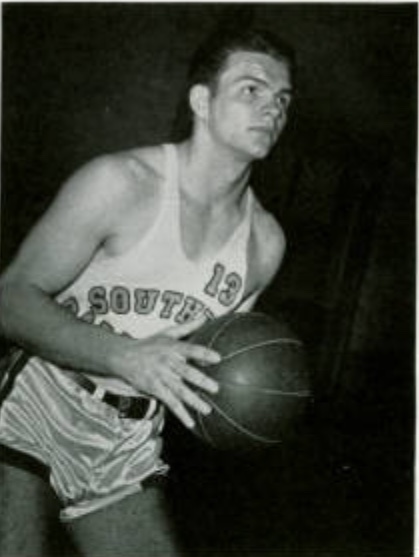 University of Southern California basketball player Ralph Vaughn from the 1940 “El Rodeo” yearbook